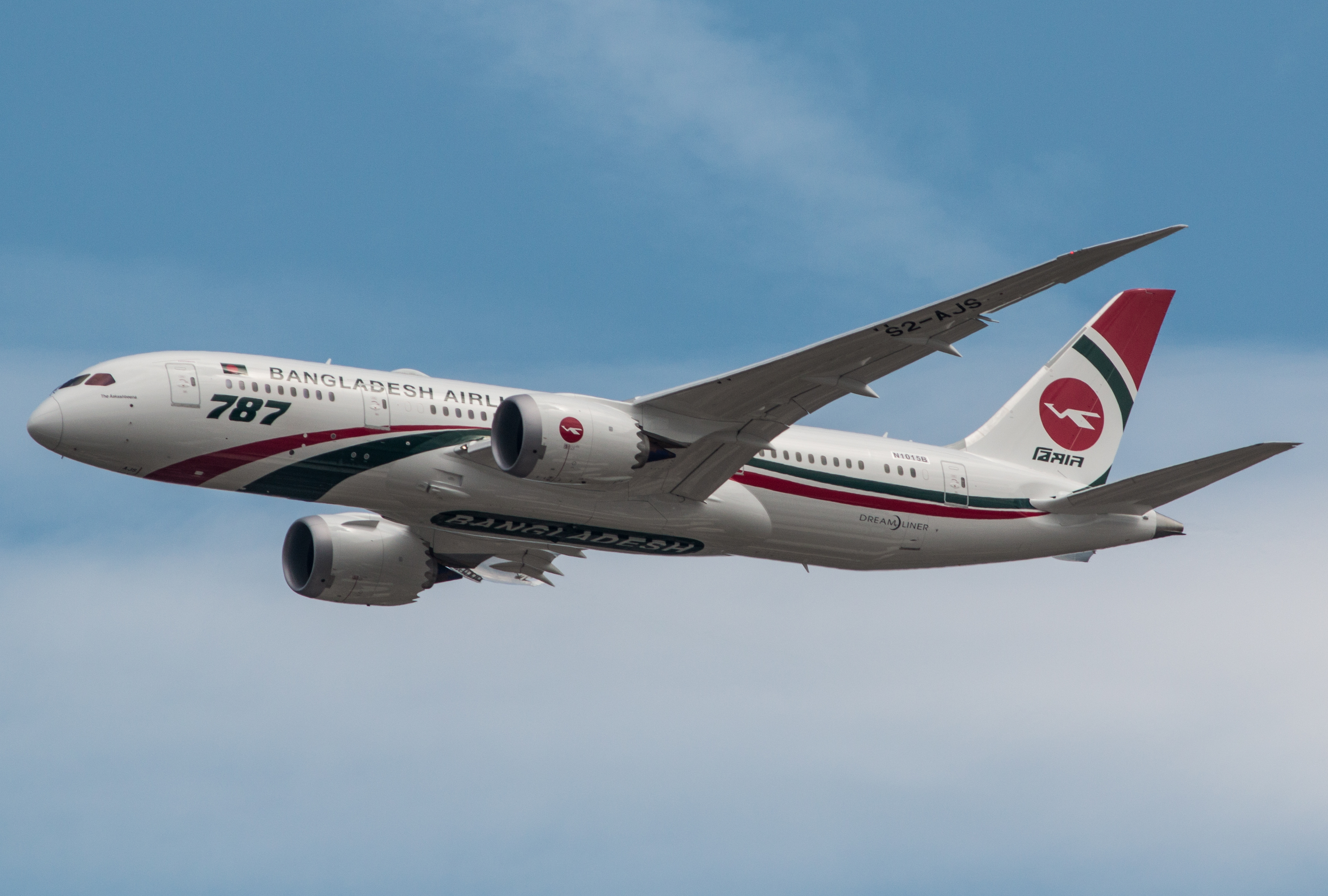 Farnborough International Airshow 2018, Hampshire